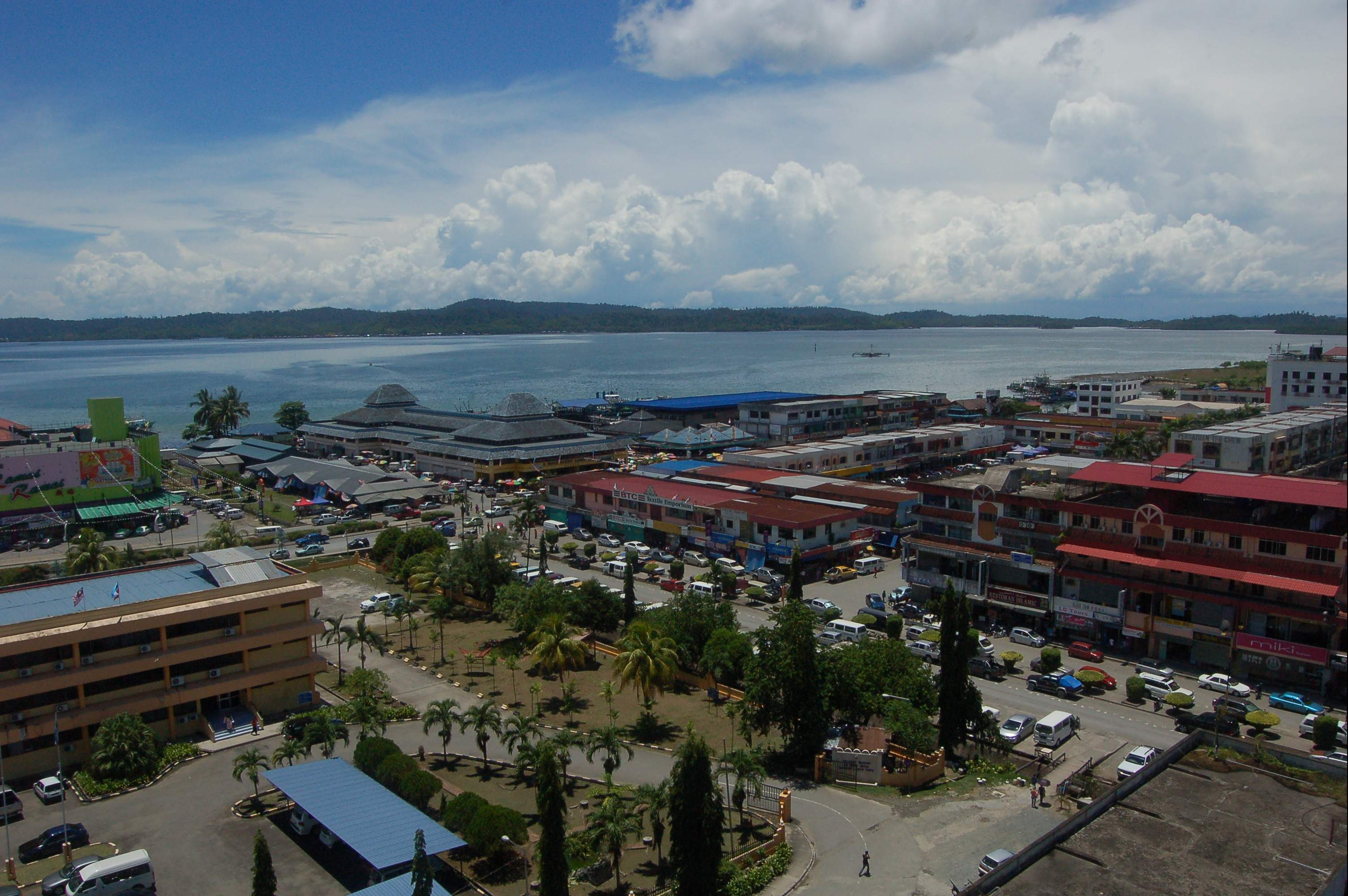 Lahad Datu town and seaview